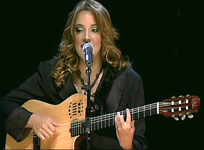 Photo taken in an Ana Carolina's concert.